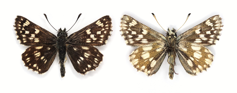 A photo of Muschampia cribrellum photographed in the collection of Đorđe Radevski (Serbia, Niš city).